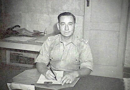 NORTHERN TERRITORY, AUSTRALIA. 1944-09-22. VX23946 BRIGADIER W.M. ANDERSON, GENERAL STAFF OFFICER, AT WORK AT HEADQUARTERS NORTHERN TERRITORY FORCE.